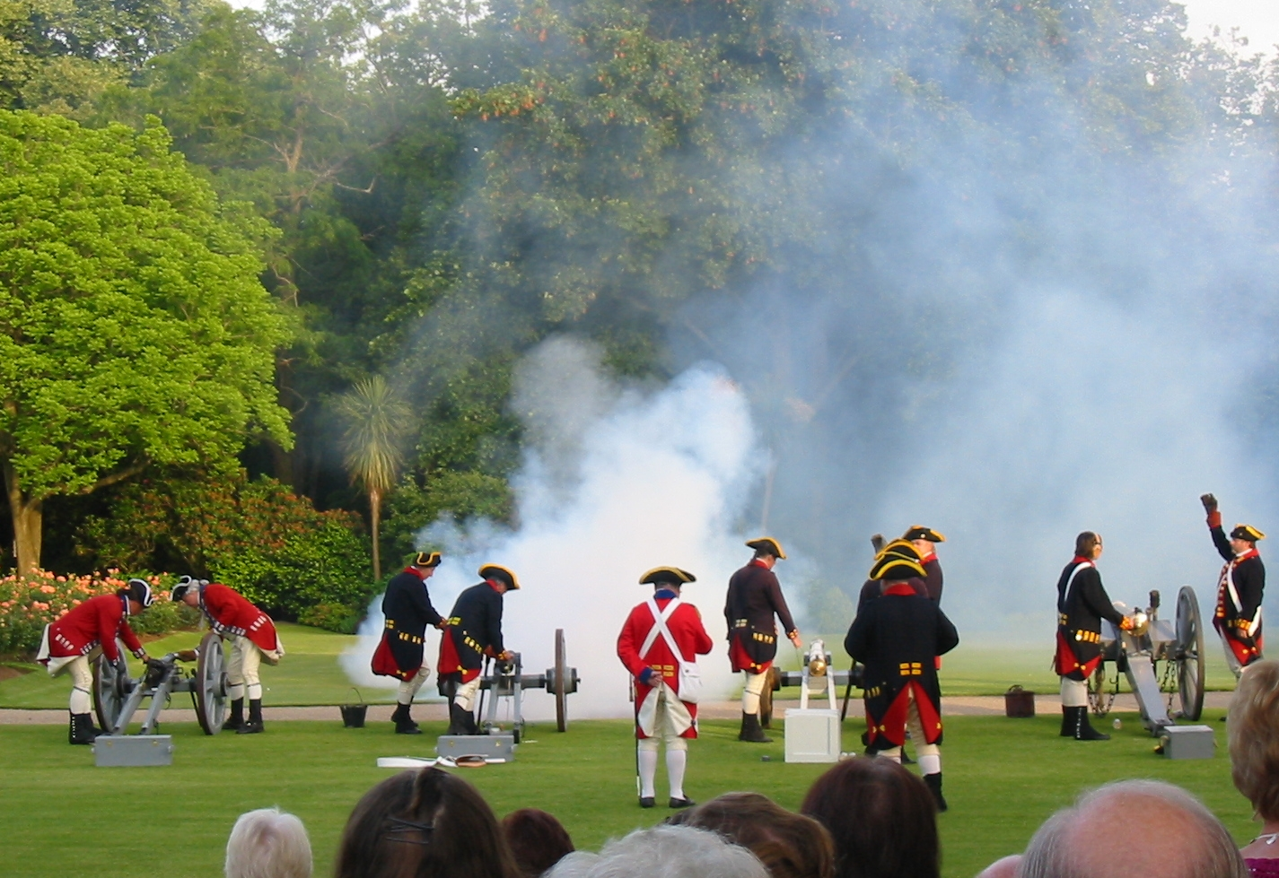 Jersey